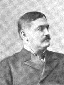 Portrait of New York supreme court justice Chester B. McLaughlin